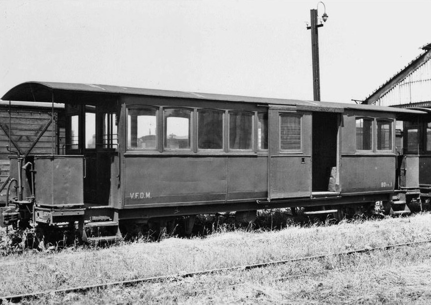 ex VFDM coach BD 1 of CFD Tarn.